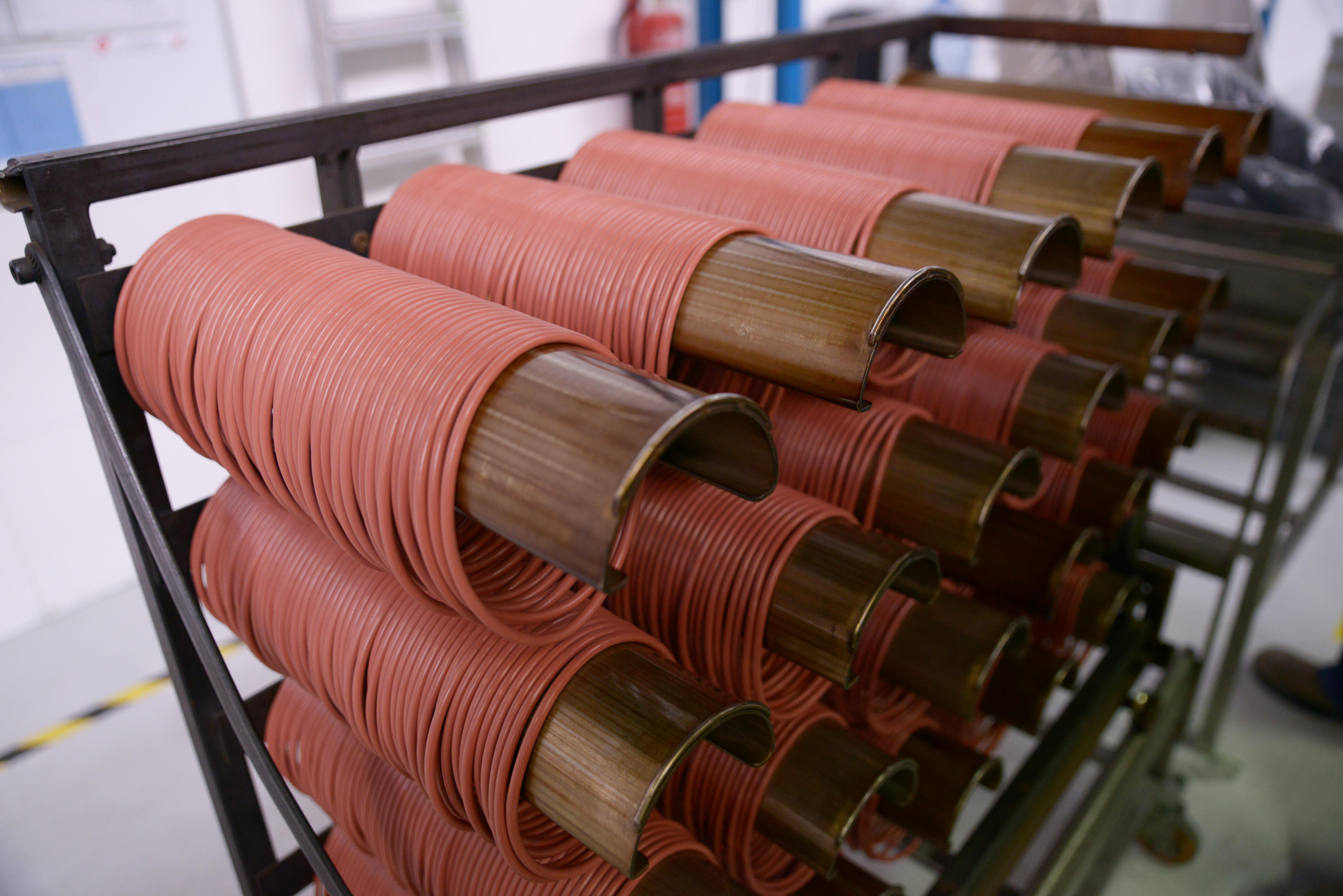 Hutchinson's O-Rings